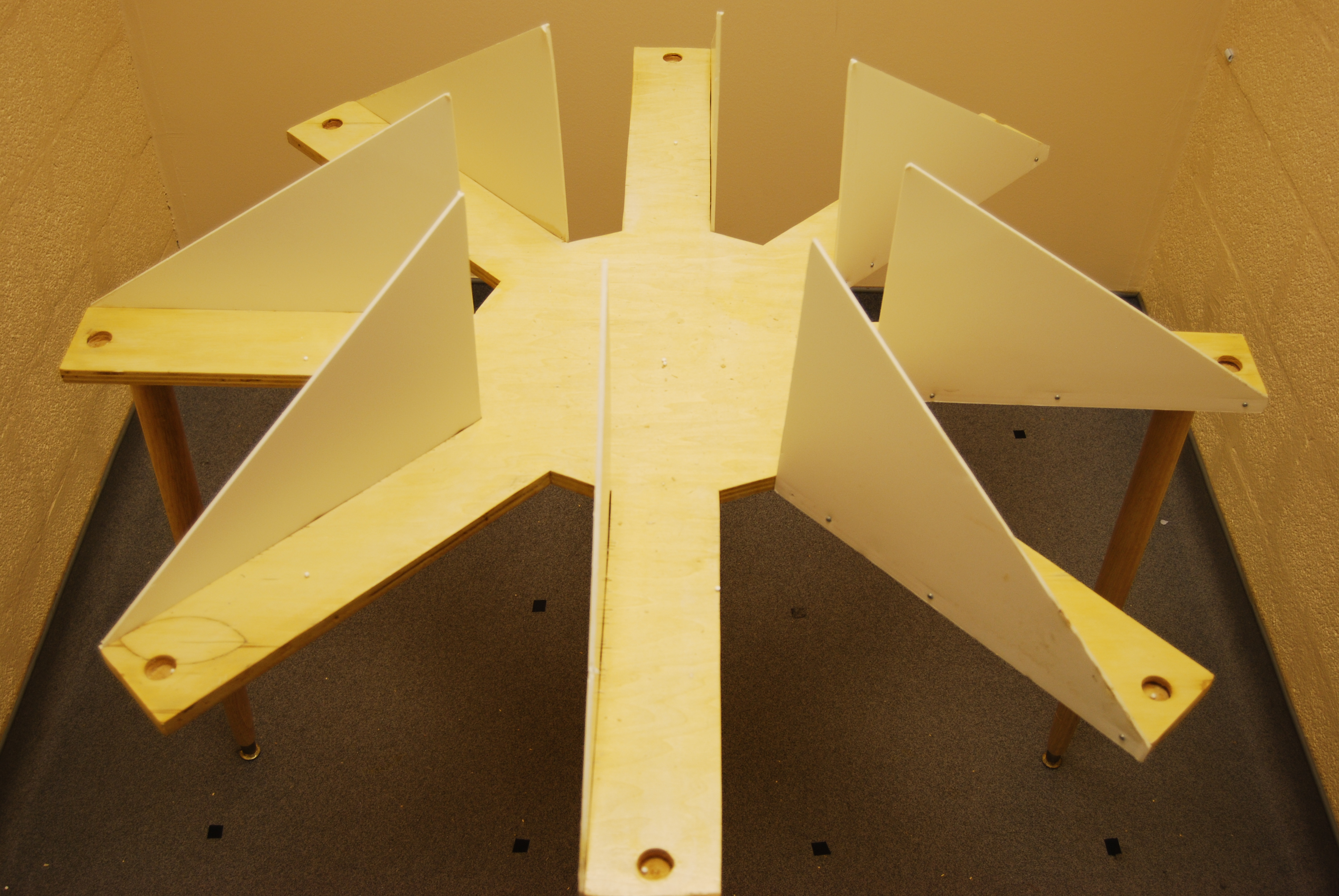 Photograph of a simple eight-arm radial maze with side walls to prevent interarm traverses beyond the central platform